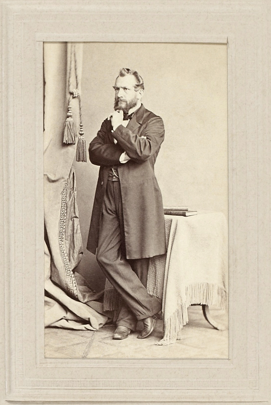 Emil du Bois-Reymond (1818-1896). German physician and physiologist, the discoverer of nerve action potential, and one of the fathers of experimental electrophysiology.